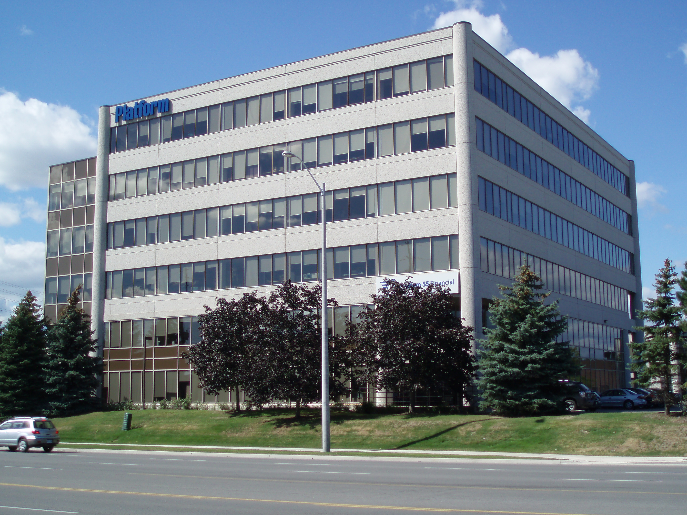 Platform Computing Headquarters - Address: 3760 14th Avenue, Markham, Ontario, Canada L3R 3T7